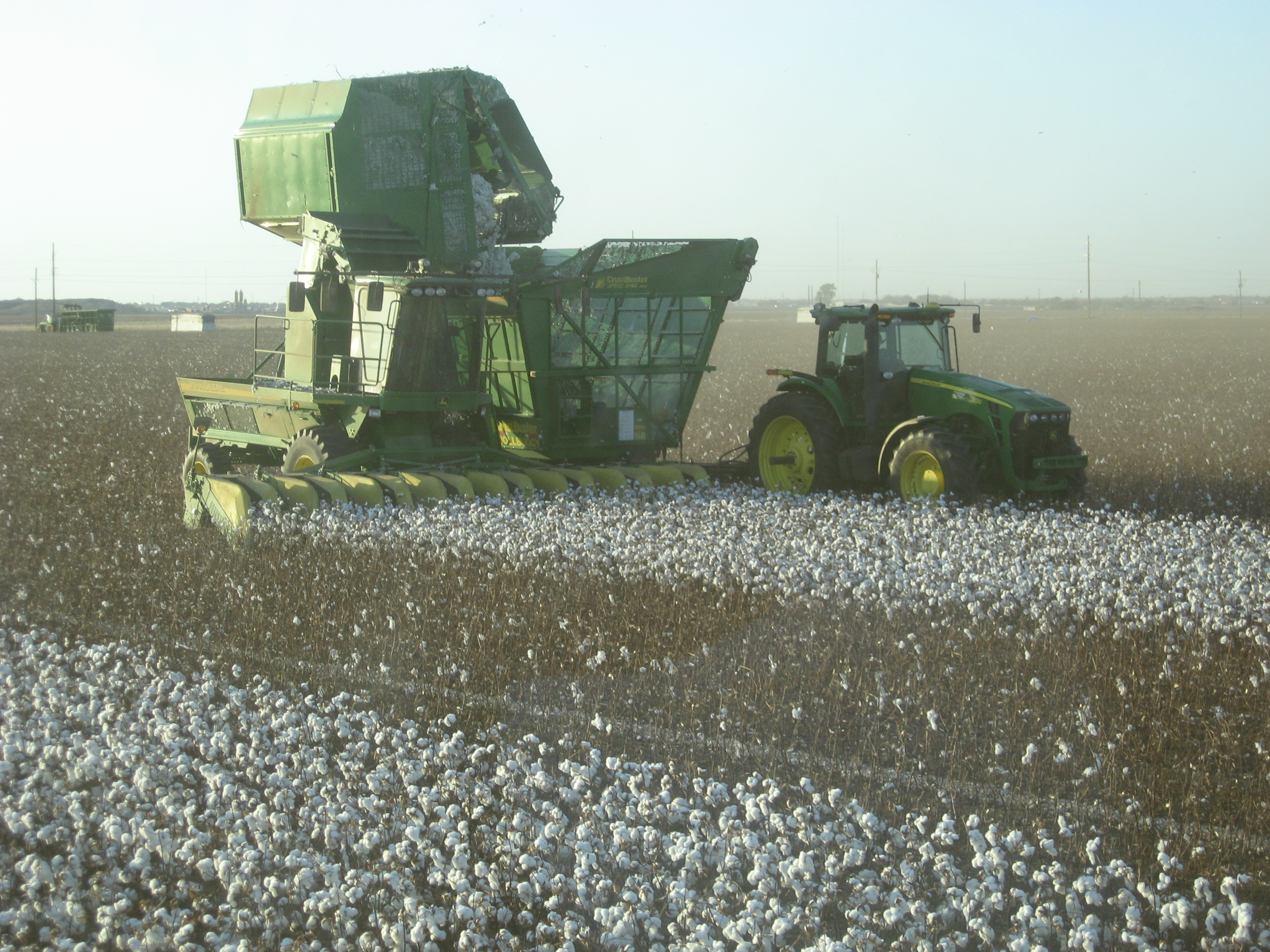 A John Deere cotton harvester unloading cotton to an accompanying CrustBuster boll buggy pulled by a John Deere tractor (somewhere in the USA presumably)